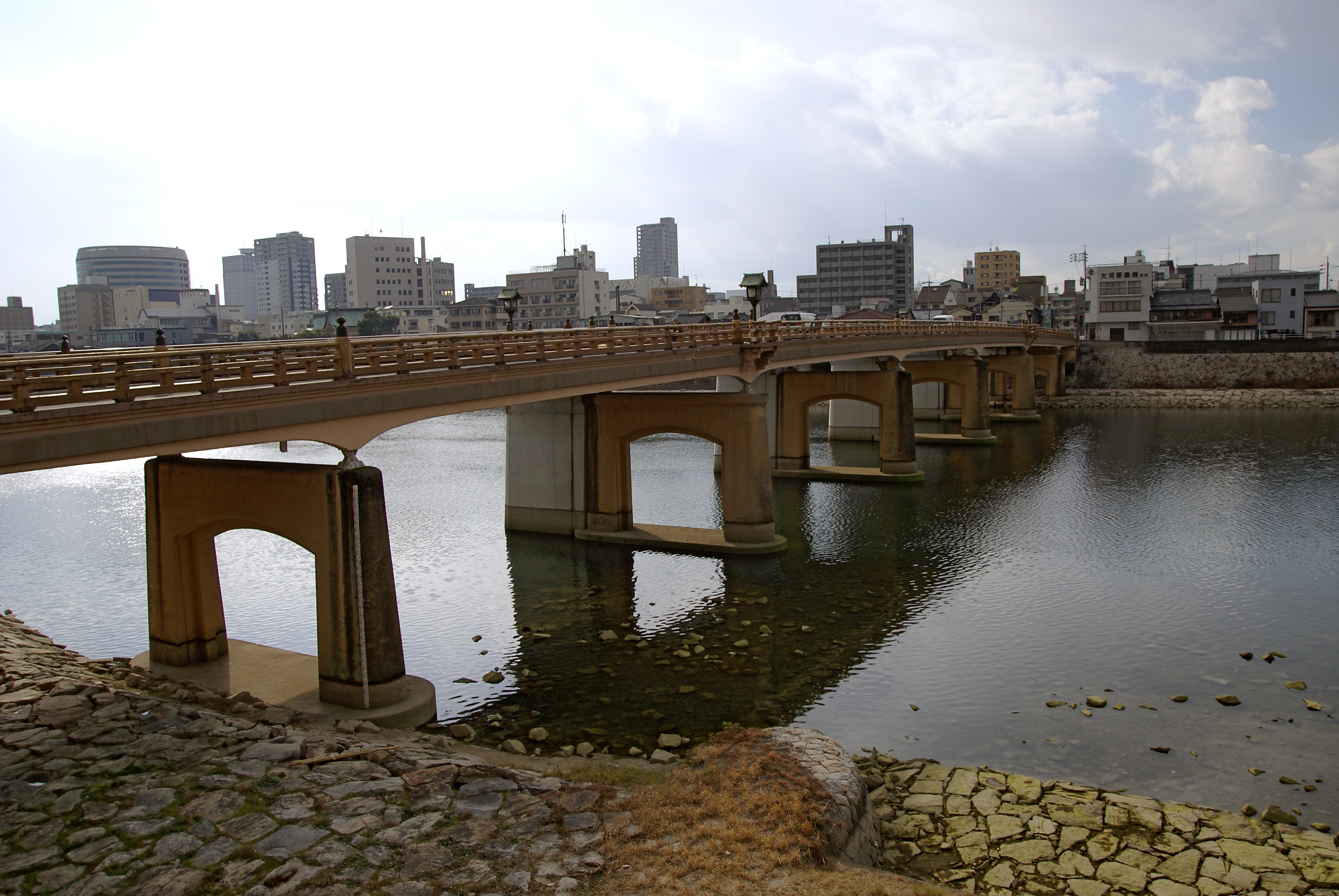 Asahi River and Tsurumi Bridge in Okayama, Okayama prefecture, Japan